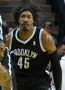 Gerald Wallace